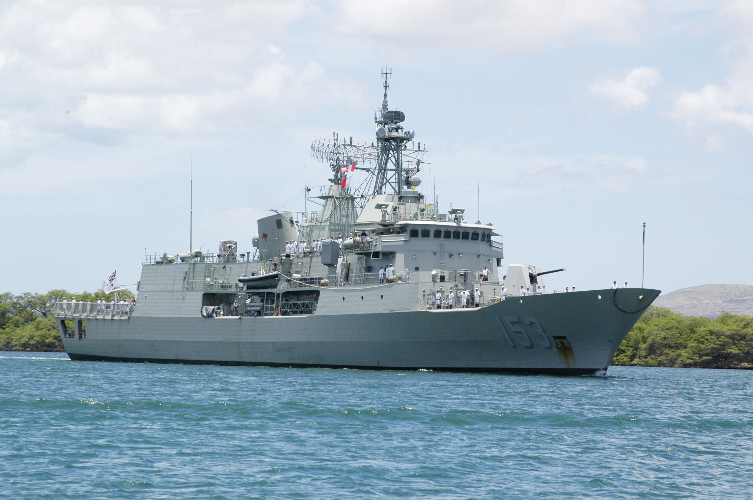 060623-N-0641S-110 Pearl Harbor, Hawaii (June 23, 2006) - The Australian Navy ship HMAS Stuart (FFH 153) pulls into Pearl harbor for a scheduled port call before starting Rim of the Pacific (RIMPAC) 2006. Eight nations are participating in RIMPAC, the world's largest biennial maritime exercise. Conducted in the waters off Hawaii, RIMPAC brings together military forces from Australia, Canada, Chile, Peru, Japan, the Republic of Korea, the United Kingdom and the United States.